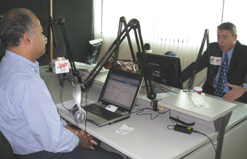 Paul Crespo, Republican candidate for Florida's 25th Congressional District, in a radio interview